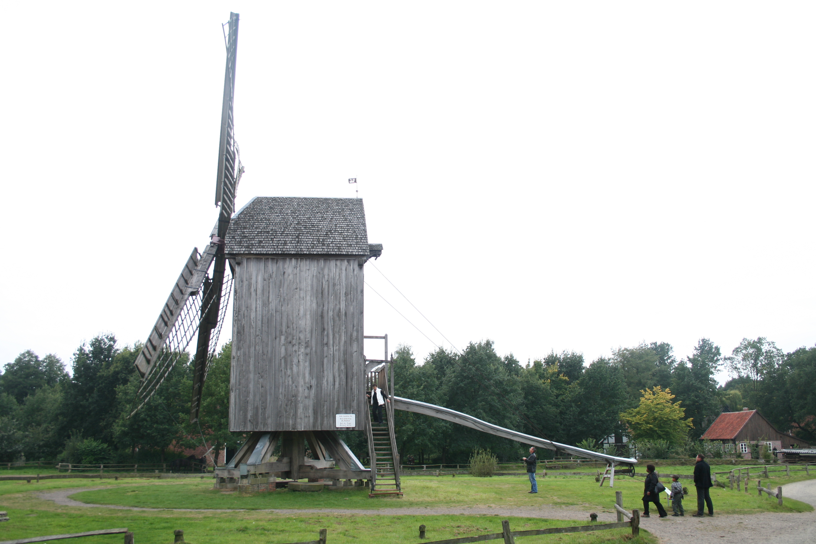 Post mill, rebuild in the open air museum Cloppenburg, Germany. The mill has presumably been build in 1683 at Essern, District of Nienburg Germany.